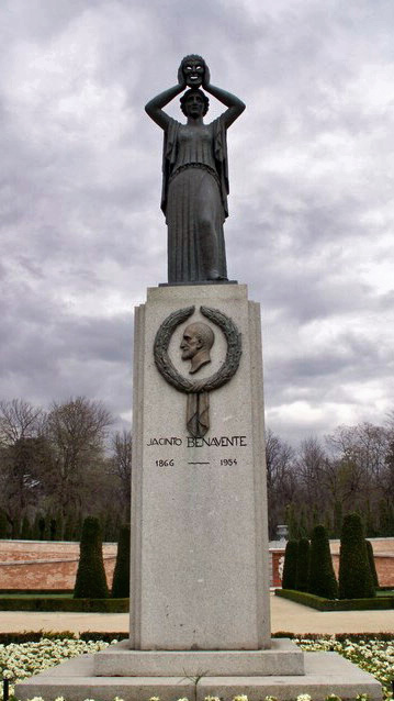 Monument to Jacinto Benavente (1866–1954) in the Retiro Park (Jardines del Buen Retiro) in Madrid (Spain). Sculpted by Victorio Macho (1887–1966) and built in 1962. Bronze statue is an allegory of Theatre.